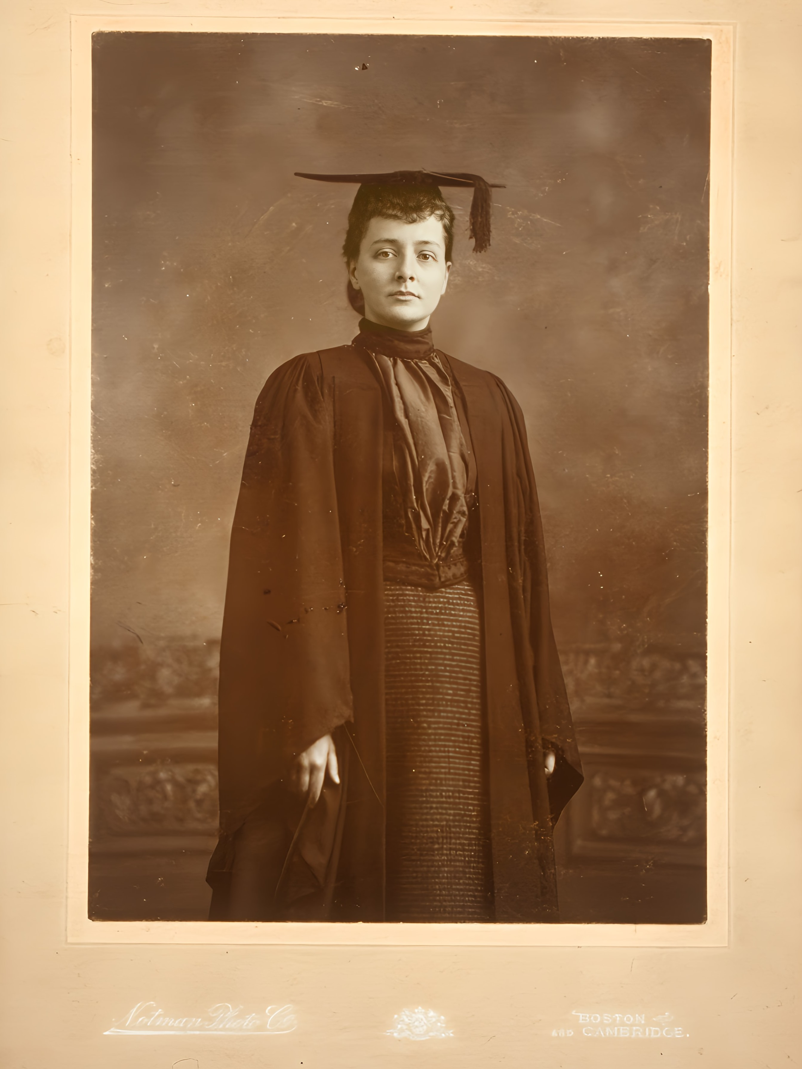 Maud Wood Park in cap and gown. Notman Photographic Co., Boston [photographer] 1898